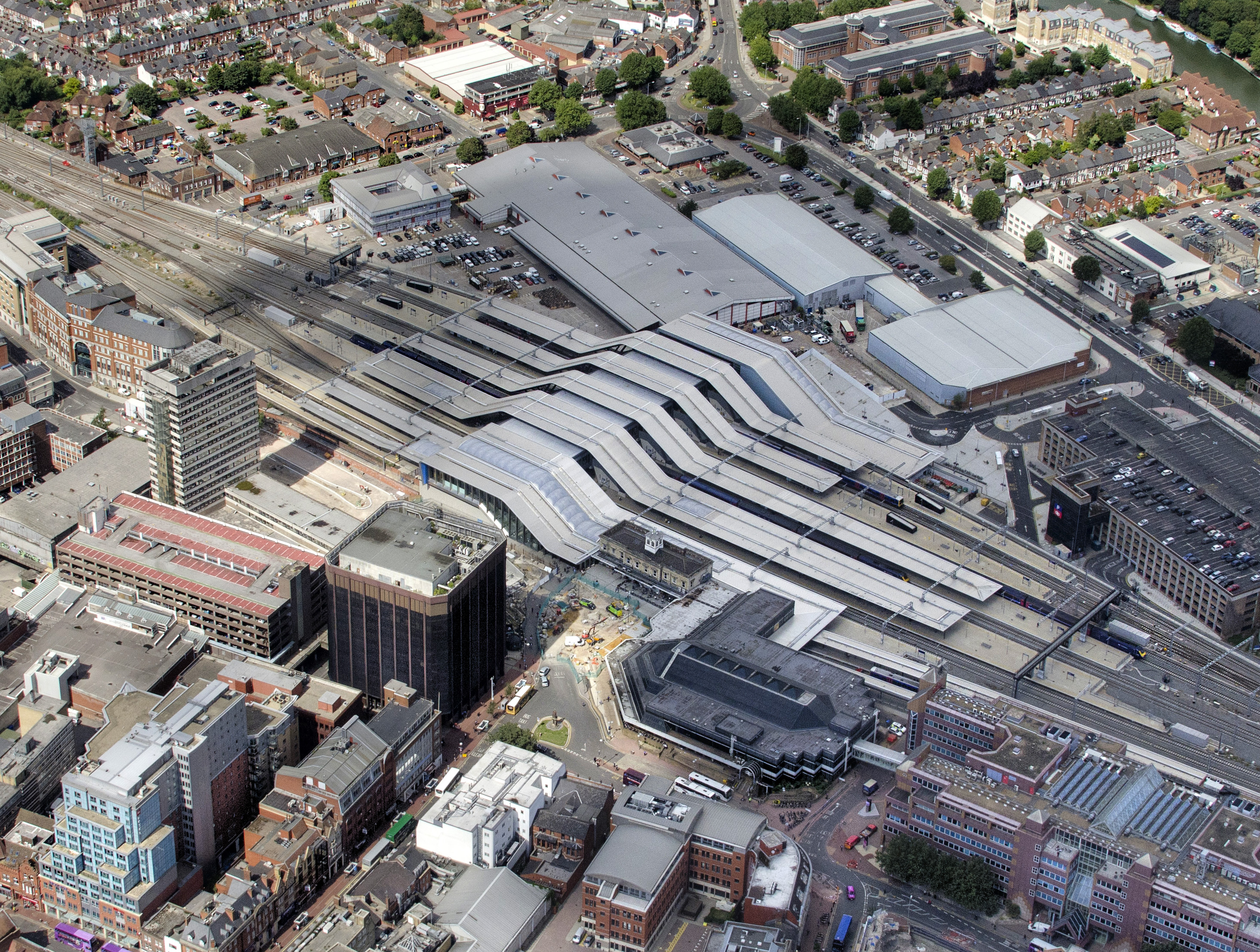 In 2008 a £400m regeneration plan was announced for Reading Railway Station. The cost is now estimated to be £850m. It will be completed in 2015.